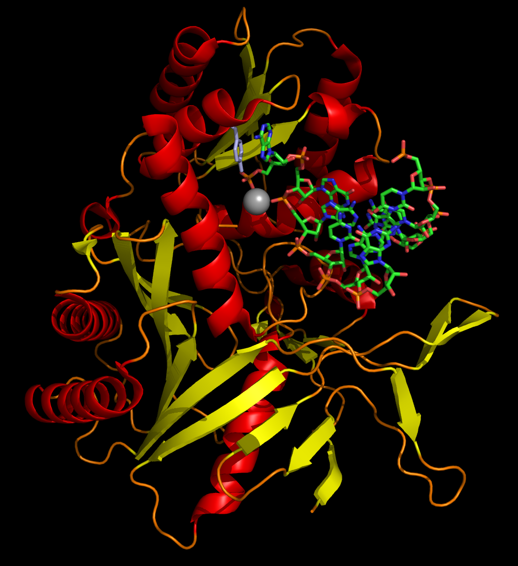 The PIWI domain of an argonaute protein from A. fulgidus, bound to a short double-stranded RNA fragment and illustrating the base-pairing and aromatic stacking stabilization of the bound conformation. The binding of the argonaute-containing RISC complex to the 5' end of the guide strand is critical in the process of RNA interference. The protein is shown colored by secondary structure and the dsRNA colored by element; a conserved tyrosine residue involved in aromatic stacking is shown in light blue, and the divalent cation (magnesium) is the gray sphere.